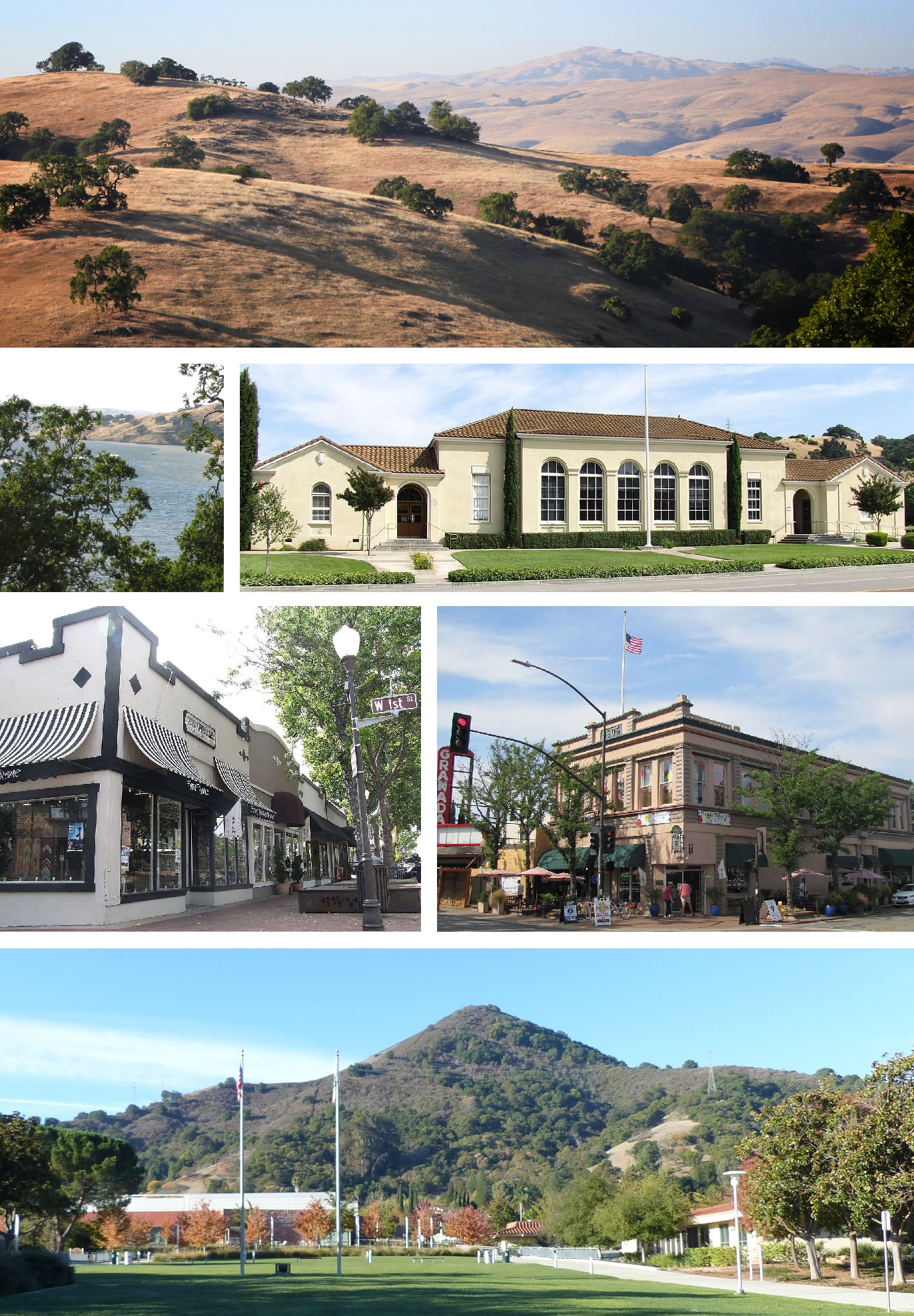 Montage of Morgan Hill, CaliforniaPhotos gathered from: photo a (b1) Anderson lake (own work) b2 c1 c2, d